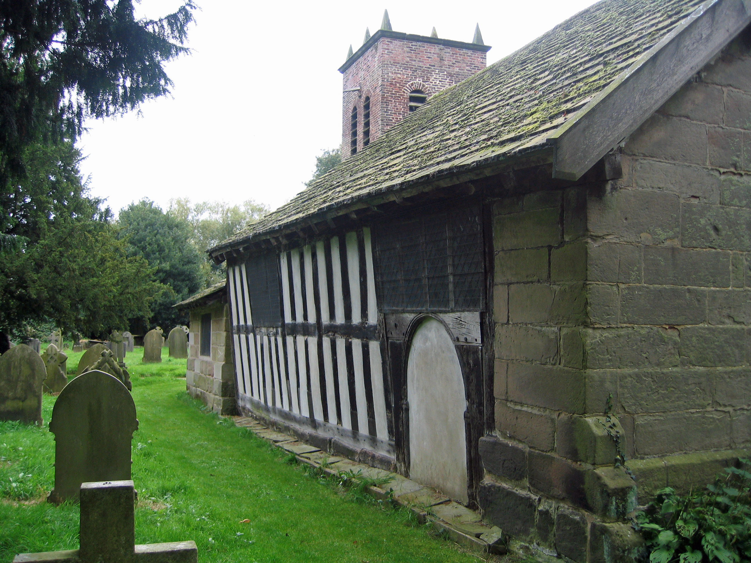 North side of the old church of St Werburg, Wigsey Lane, Warburton, Greater Manchester, seen from the west